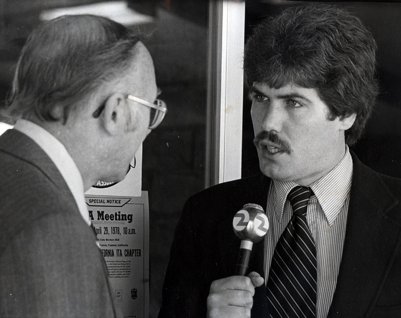 San Francisco Channel 2 television reporter Jim Clancy in the late '70s. Jim Clancy was the uncredited voiceover in film director Wayne Wang's 1982 indie film, Chan Is Missing. Clancy's voice was the newscaster reporting on the flag waving incident as actor Wood Moy drives through the Stockton Tunnel on Stockton Street in San Francisco's Chinatown.